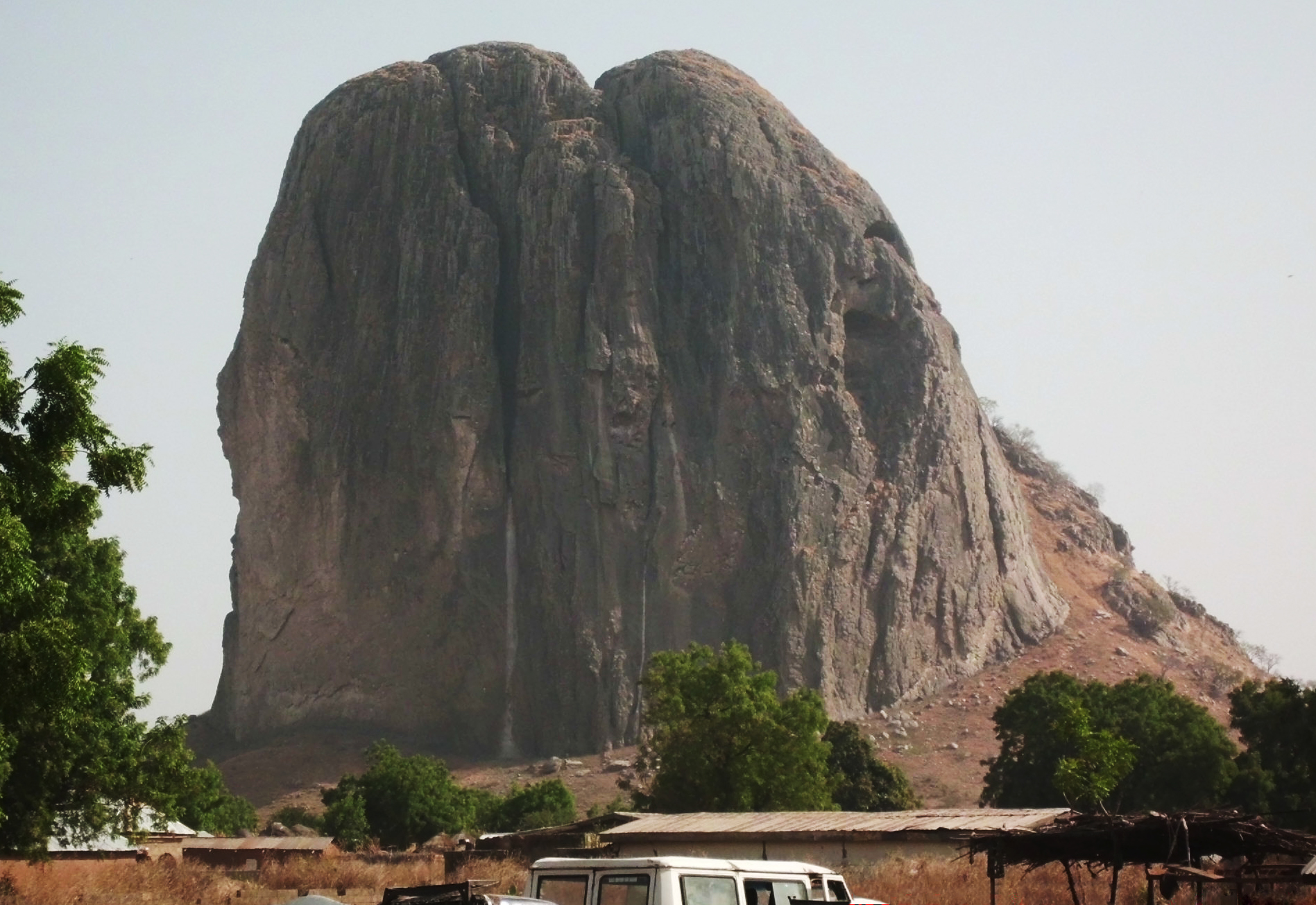 A closer view of the beautiful Wase Rock